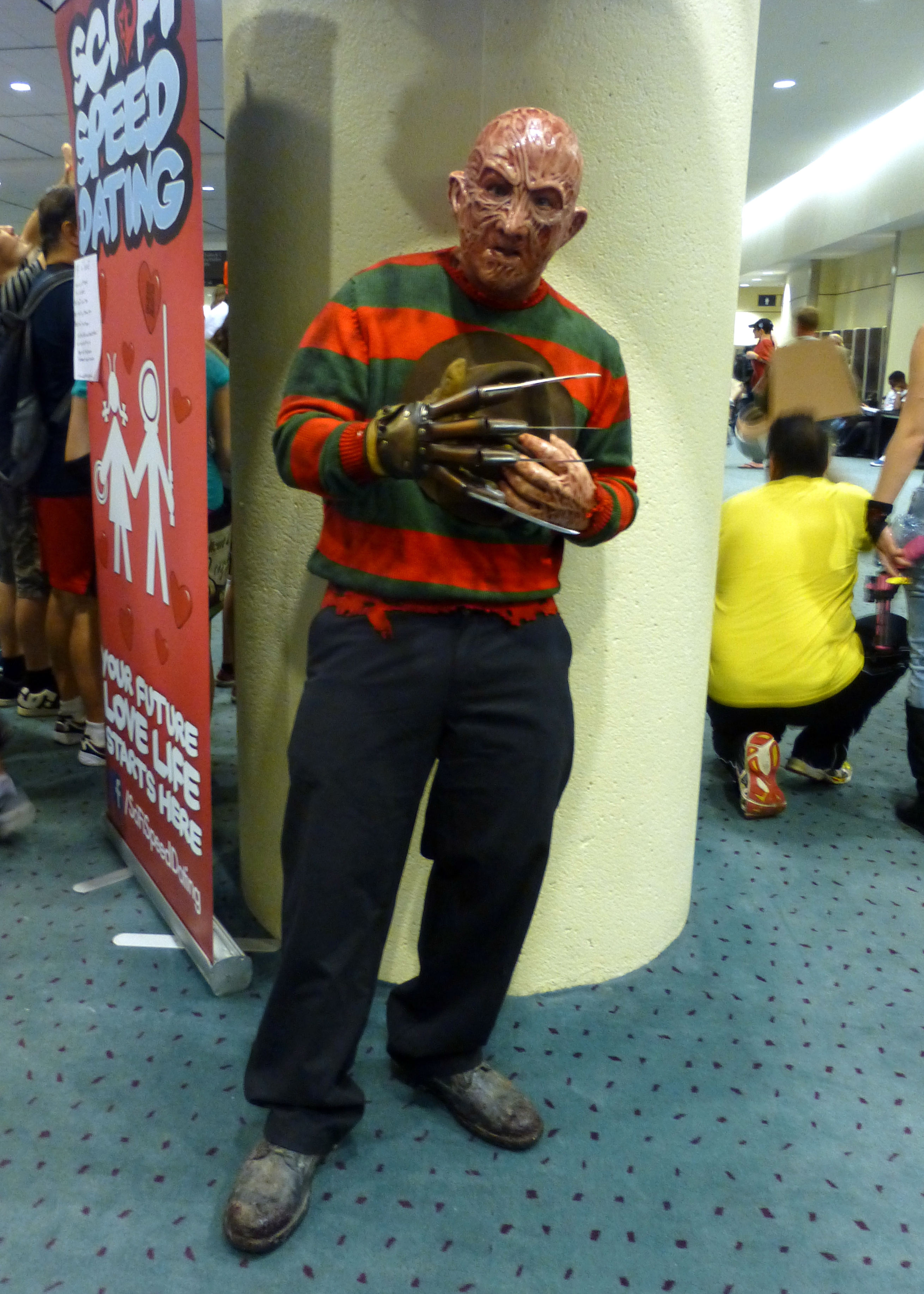 Freddy Kruger Cosplay at Fan Expo Canada in 2015.